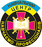 184 Training Center NAGF, A2615, village Starychi, Yavoriv District